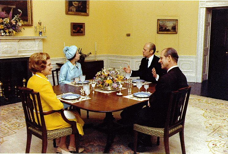 U.S. First Lady Betty Ford with her husband Gerald Ford, and state guests Her Majesty The Queen and His Royal Highness The Prince Philip in the White House President's Dining Room. White House photograph.